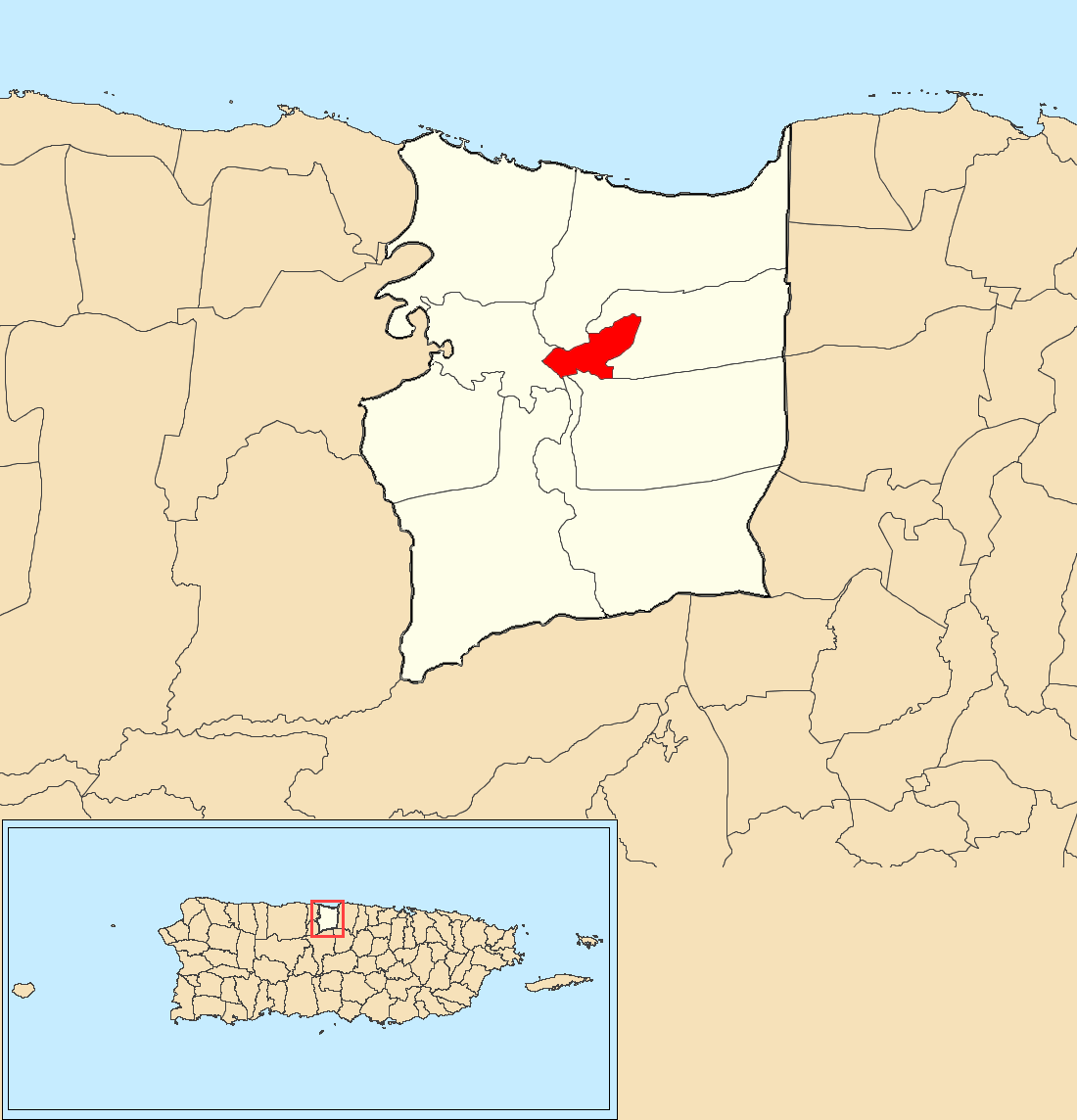 Locator map for barrio in Manatí, Puerto Rico